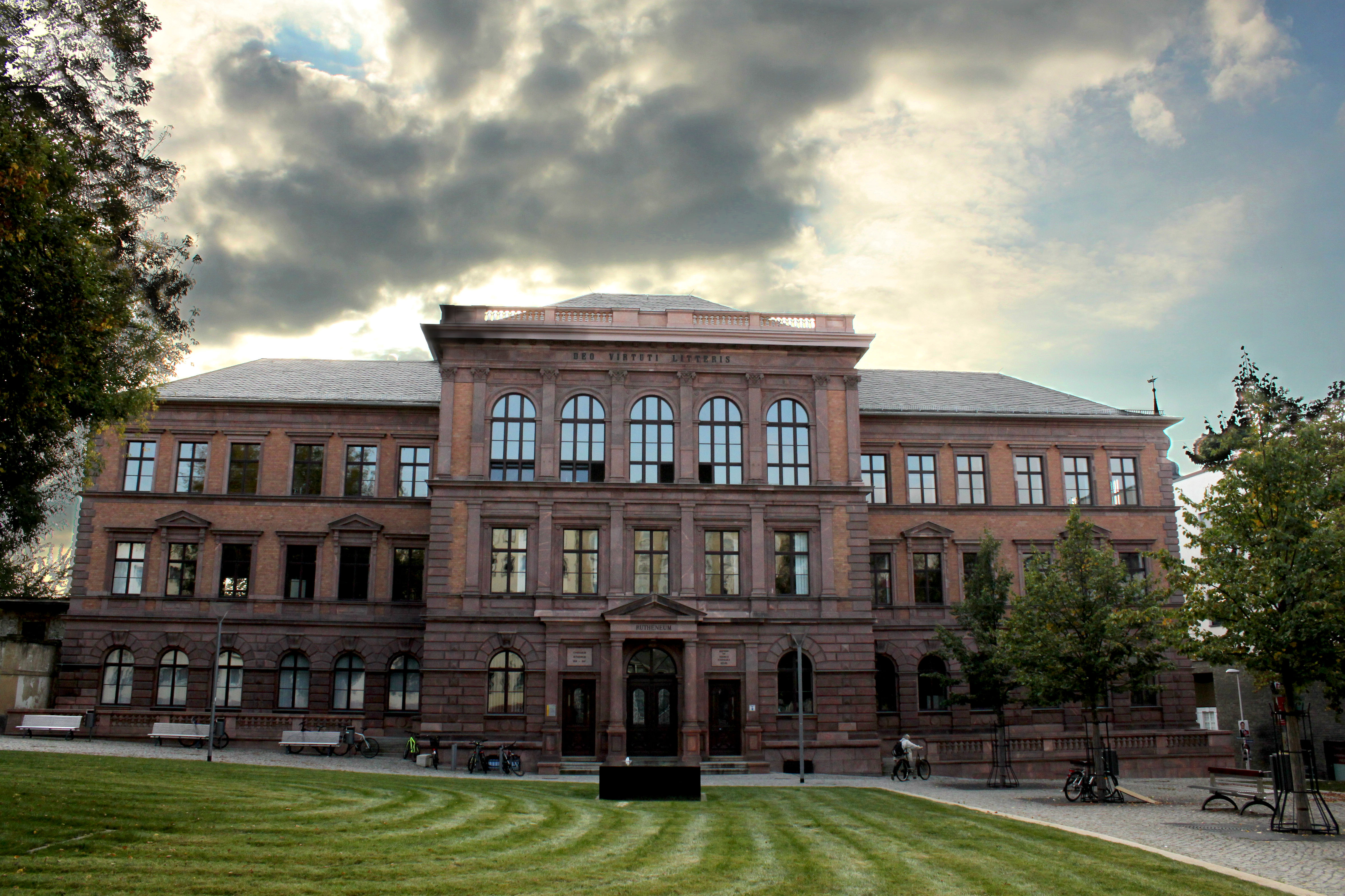 Goethe-Gymnasium/Rutheneum, a grammar school at Johannisplatz, Gera, Germany